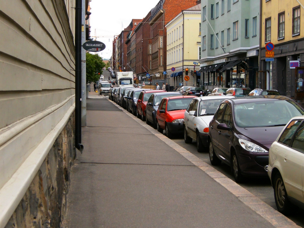 Wooden buildings by the street "Kalevankatu" in Helsinki, Finland